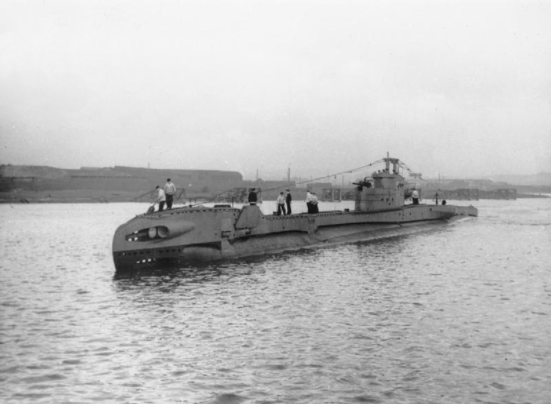 British T class submarine HMSM TRUCULENT underway at Barrow.